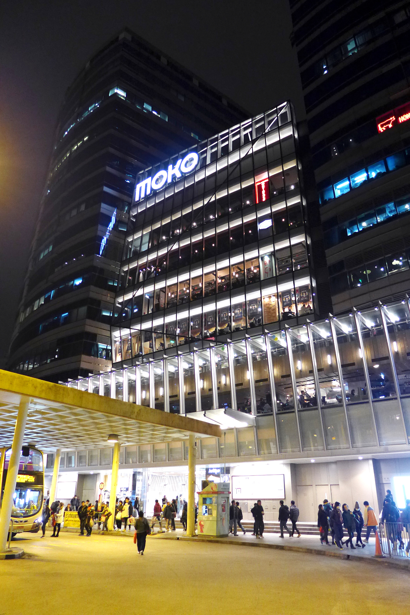 MOKO Mall Facade after renovation